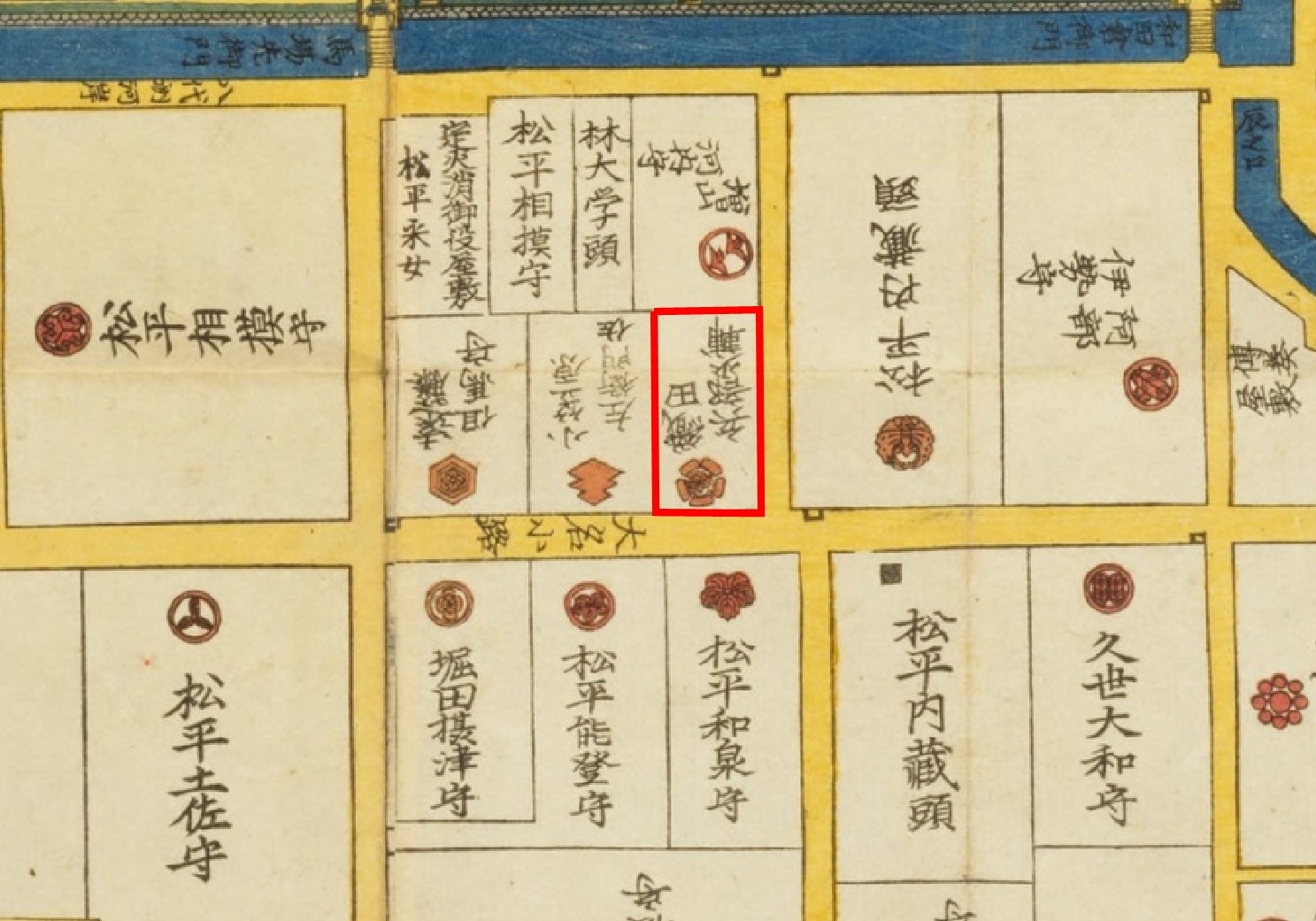 A residence of Oda clan at Edo